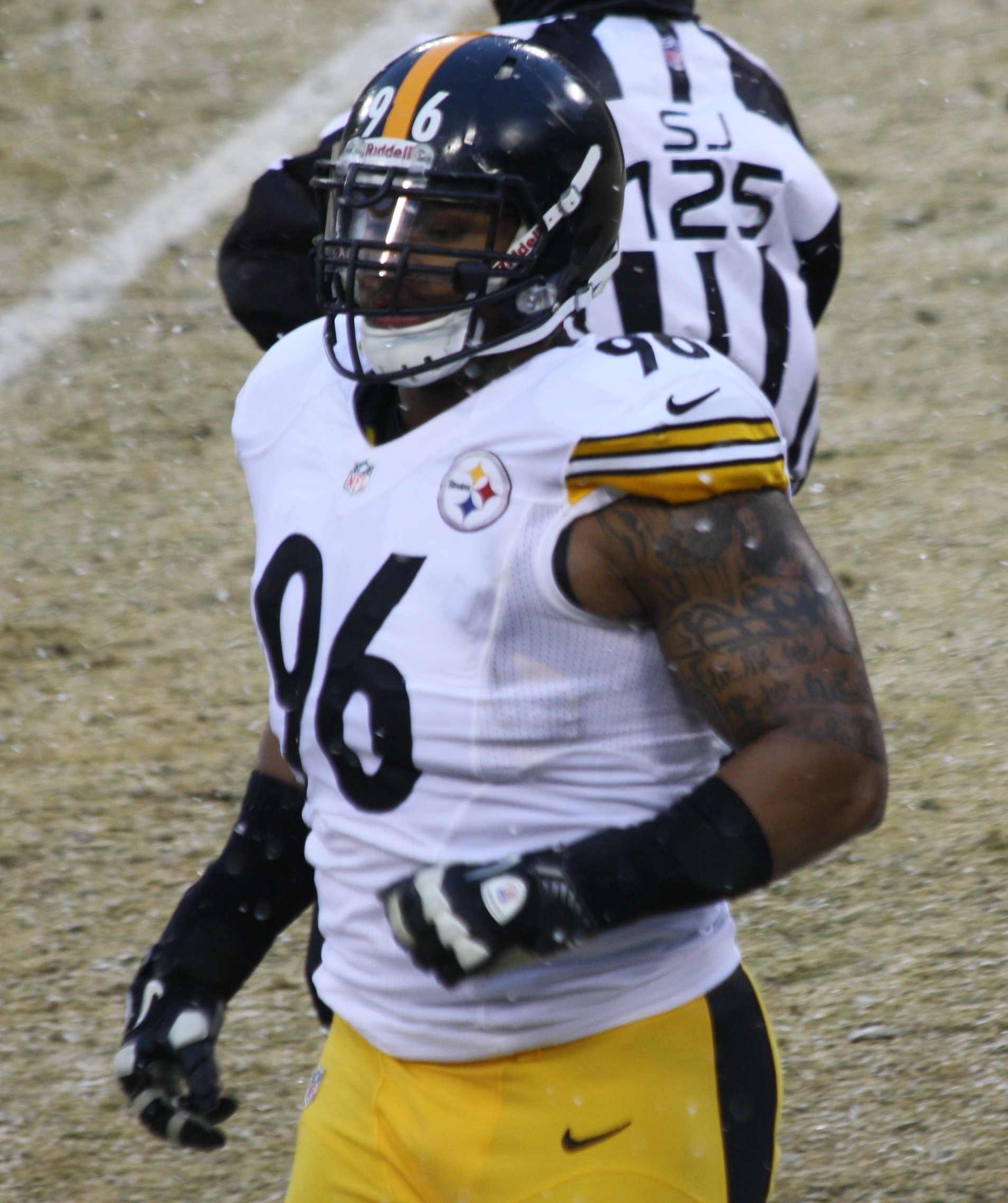 Pittsburgh Steelers player Ziggy Hood coming off the field.